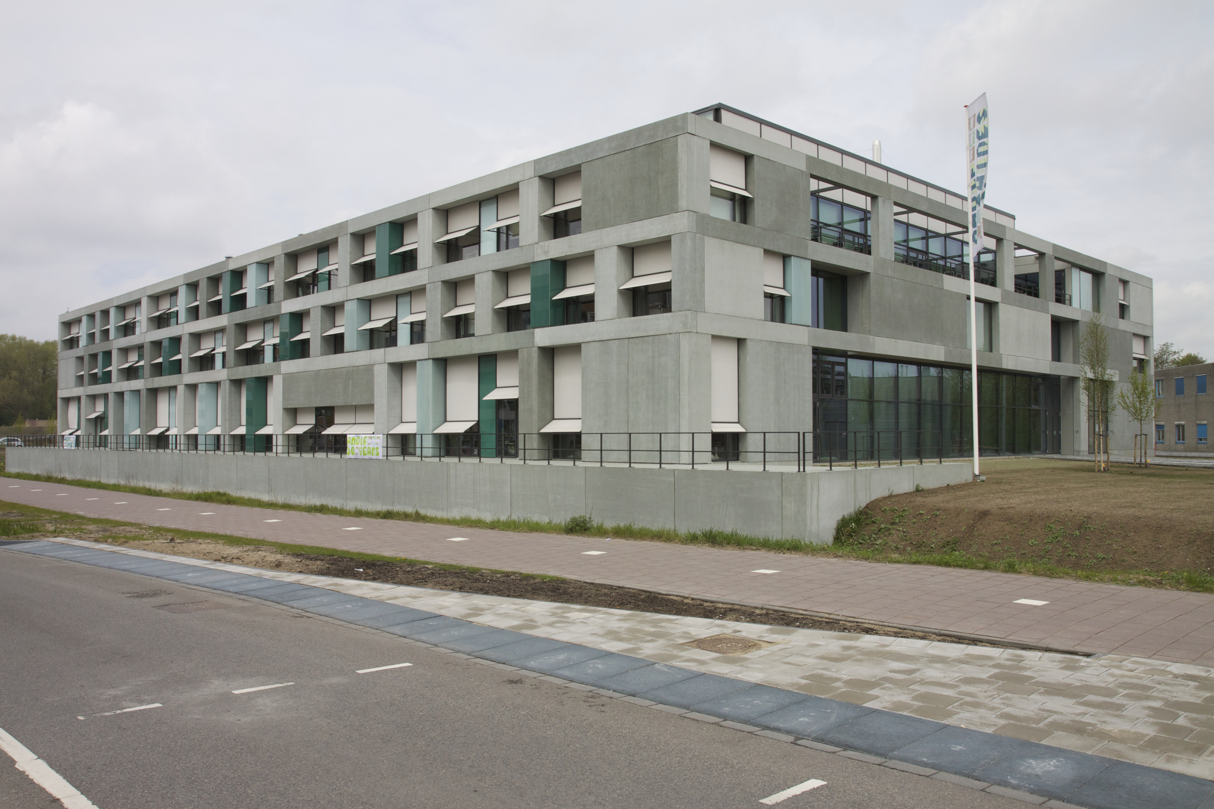 FOM Institute AMOLF Science Park 104 1098 XG Amsterdam, The Netherlands